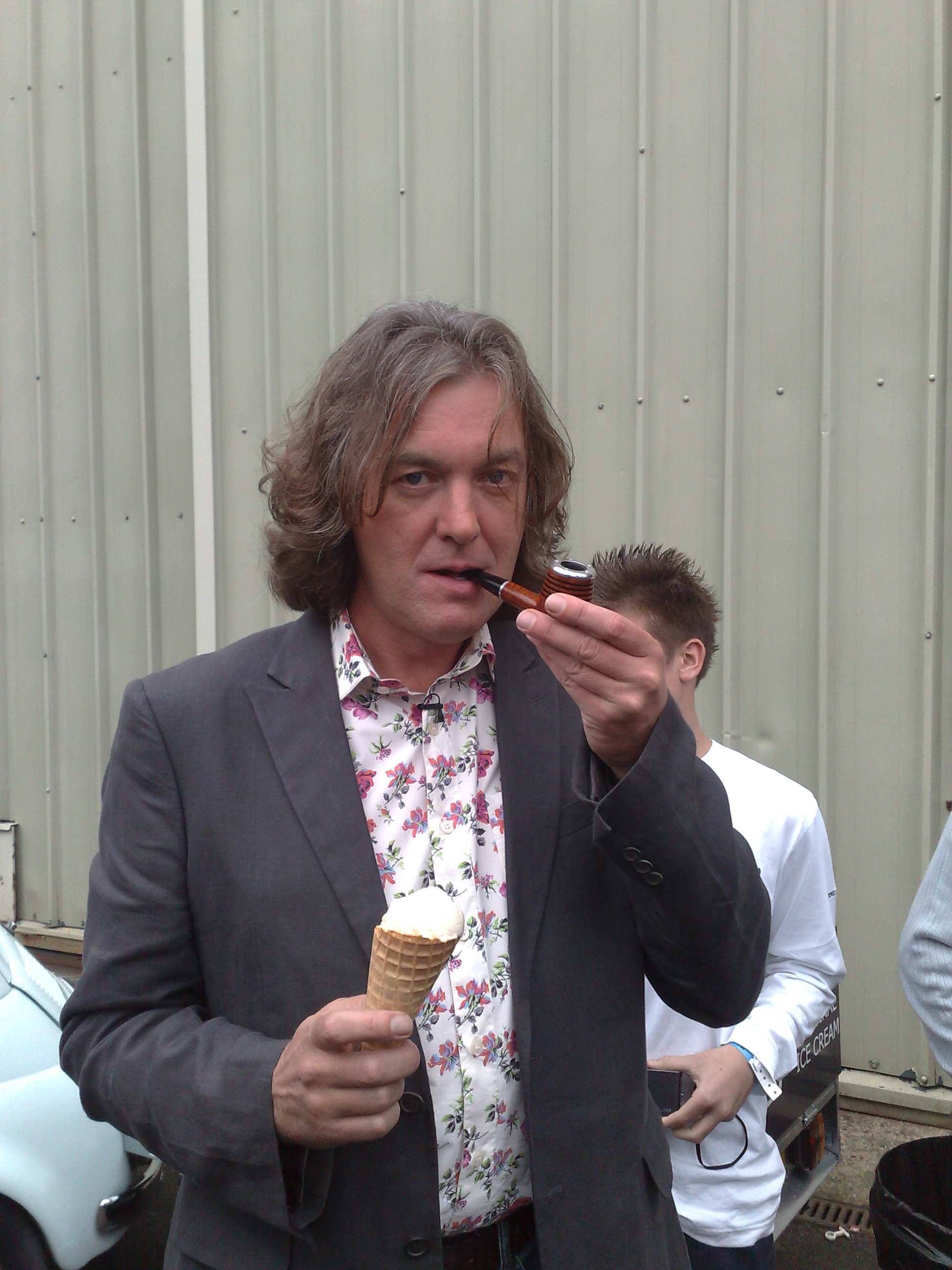 James May at a recording of Top Gear. He is biting a pipe which features in the show during the news section (The pipes are made by Porsche).